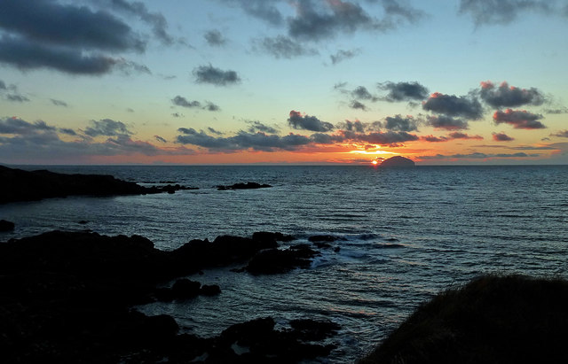 Turnberry Sundown. I had been hopeful of a more striking sunset on this visit to Turnberry Point but a bank of low cloud over the horizon killed it off at the last minute. All the same, watching the sun going down on South Ayrshire's coast is always worth while.